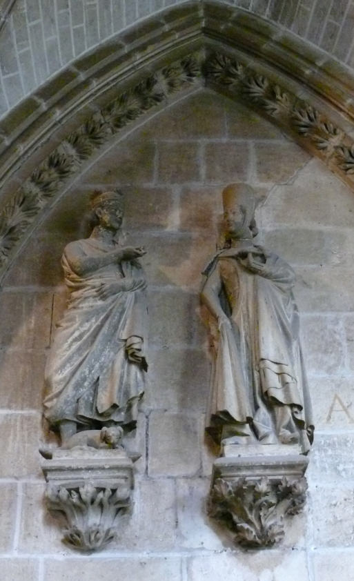 Ferdinand III of Castile and Elizabeth of Hohenstaufen